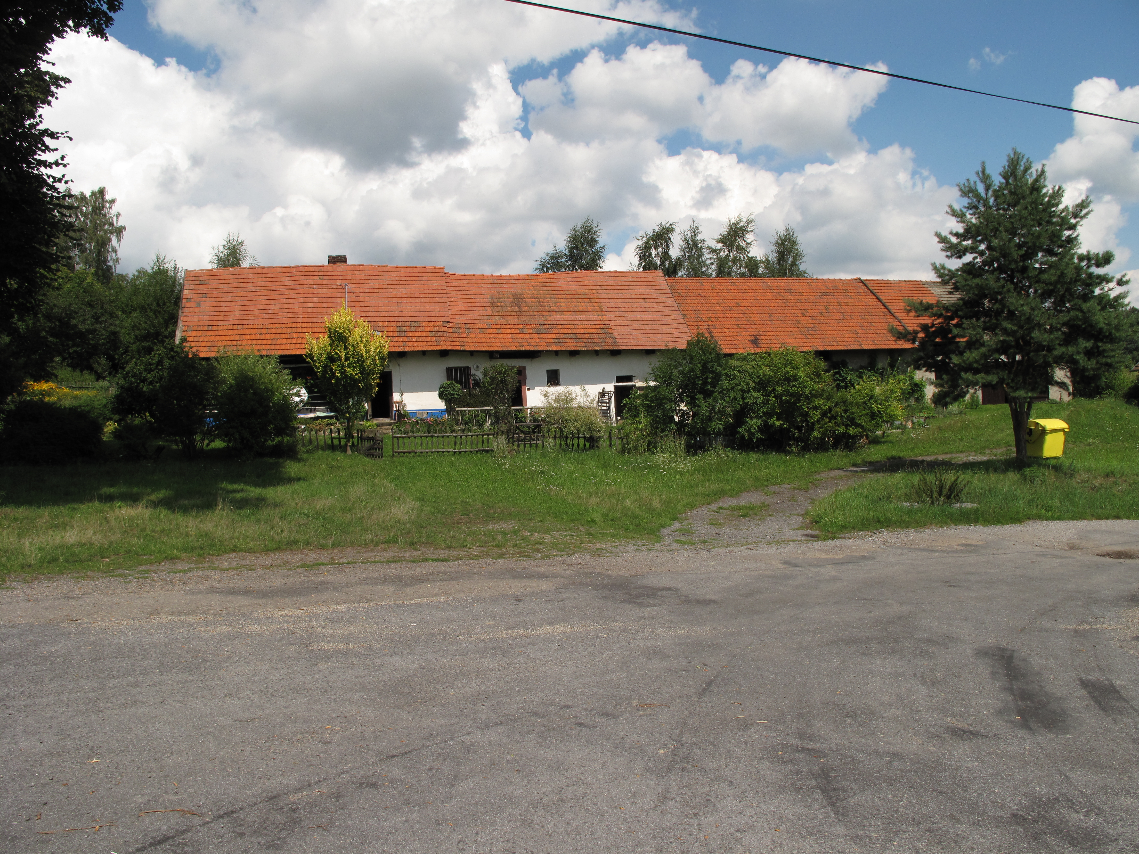 This photograph was taken within the scope of the second year of the 'Czech Municipalities Photographs' grant.